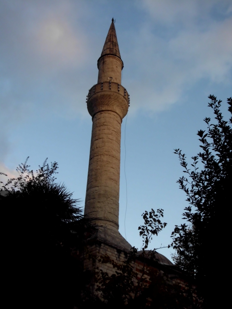 atikalipasa camii - Atik Ali Pasha Mosque